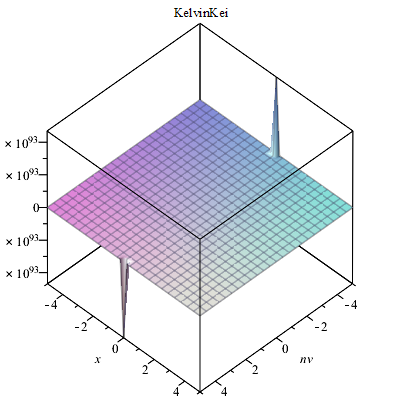 Kelvin Kei(v,z) function